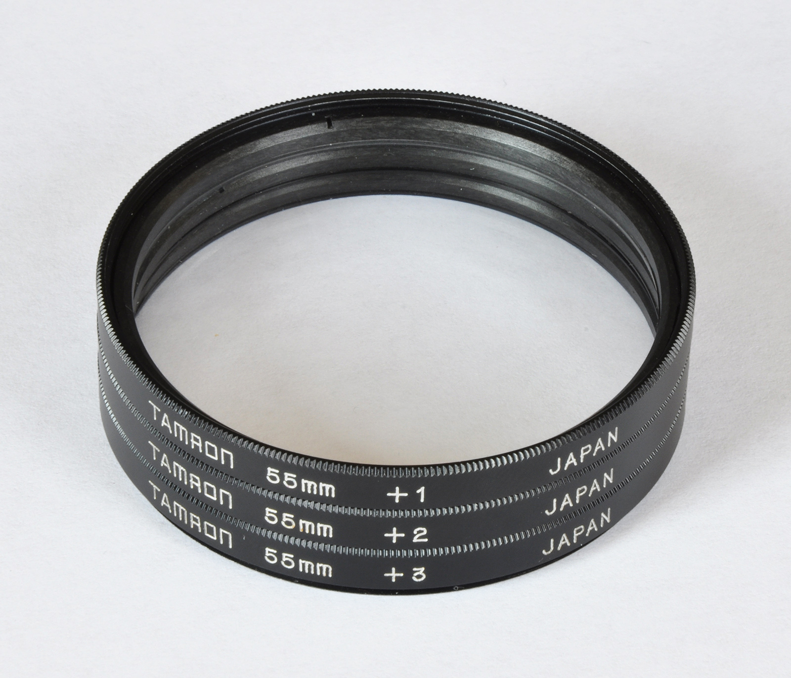 A set of three 55mm Tamron close-up filters (+1, +2, +3 dioptres).